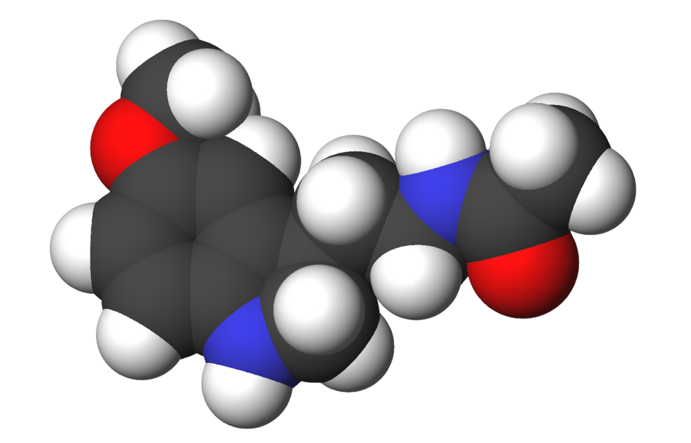 If this file appears stretched, I have no clue why, (it appears that way on my computer). I uploaded a fixed version, and you can see it when clicking to get the full version, but for some reason it doesn't show it that way. Melatonin